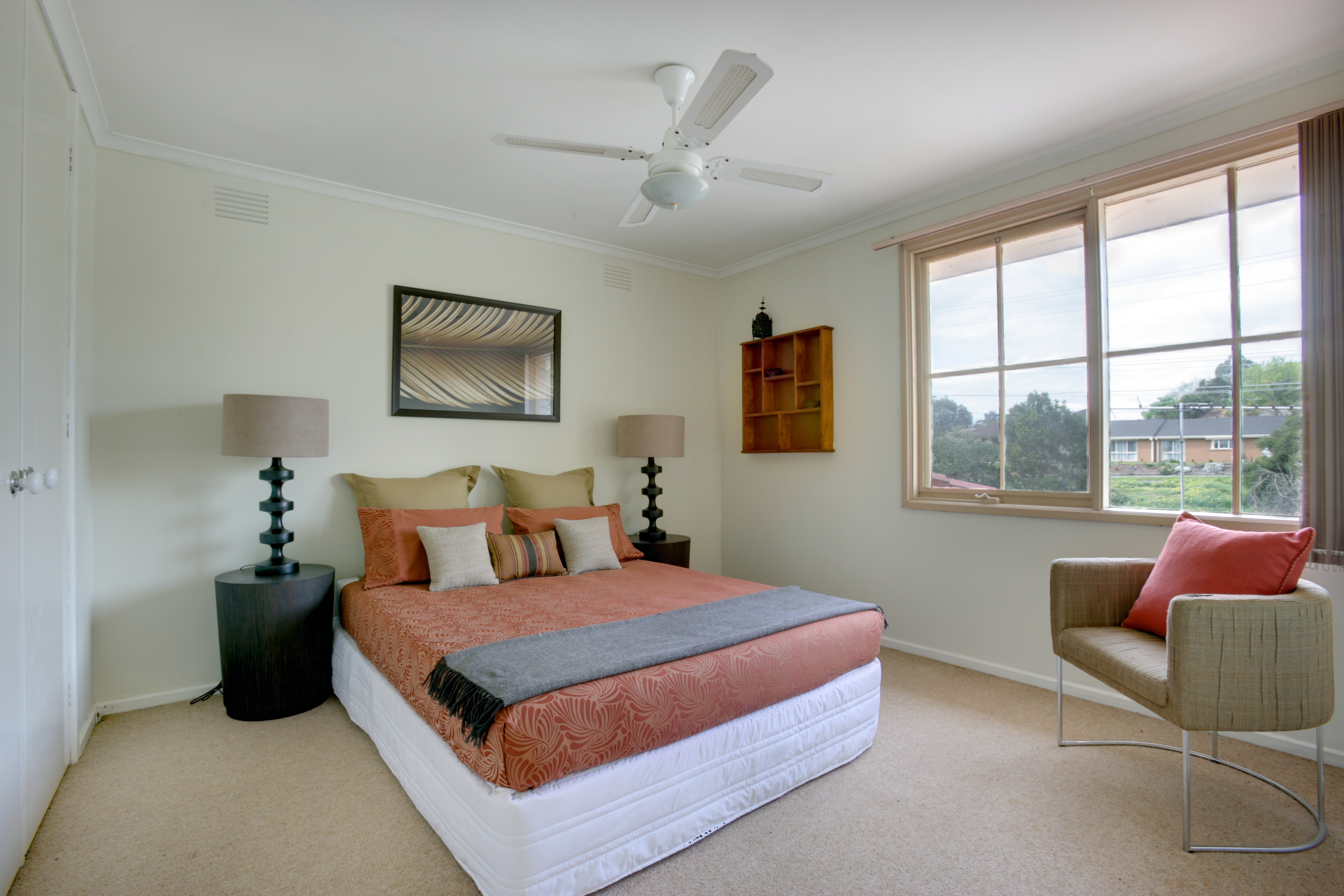 Modern bedroom, Victoria, Australia.